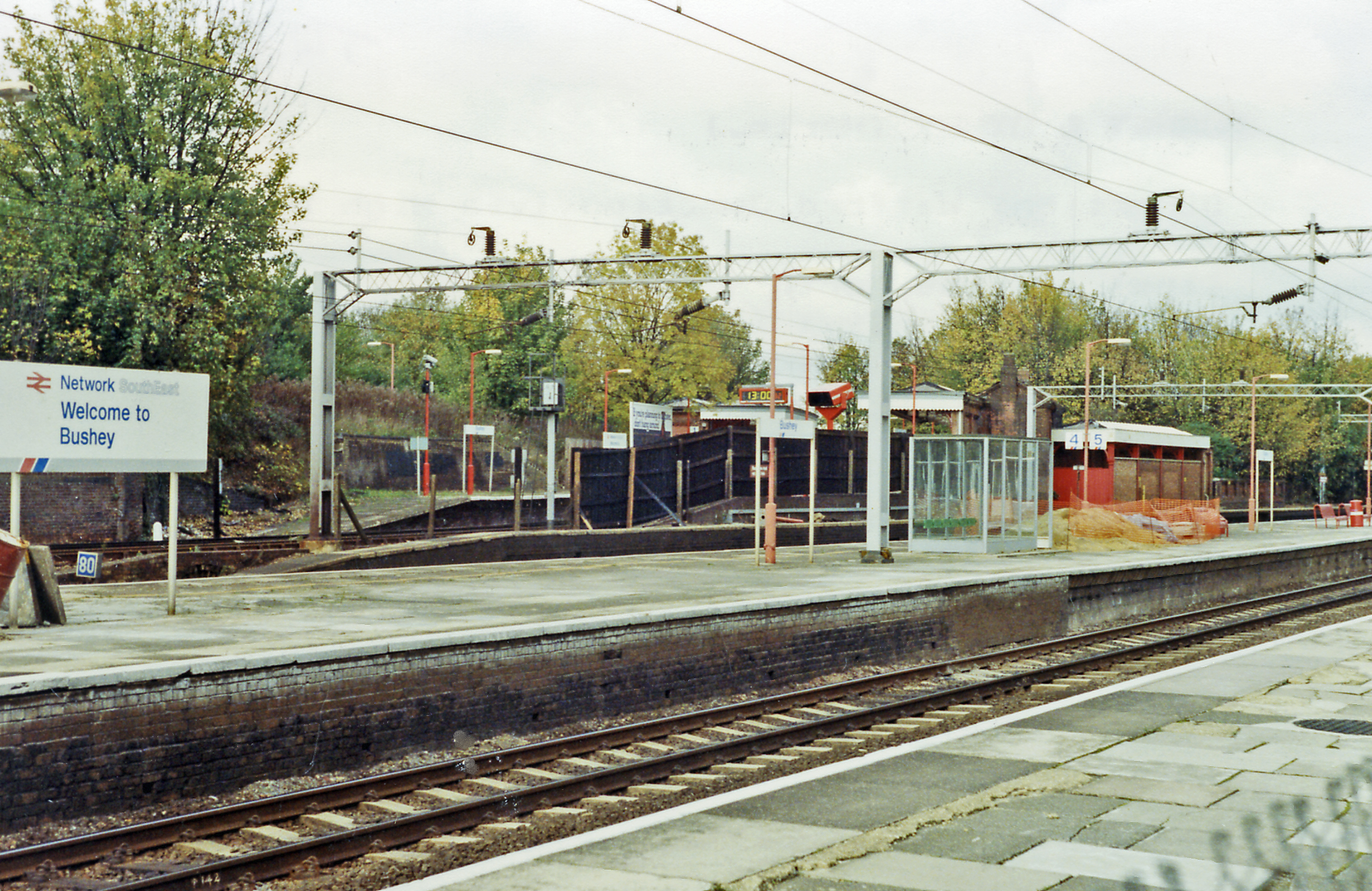 Bushey station WCML, 1990. View northwards, towards Watford Junction and the North on the ex-LNWR West Coast Main Line, junction of the loop of the local lines which go round via Watford High Street. The station was 'Bushey & Oxhey' until 24/9/82. The Fast lines are in the foreground, while at the back, beyond the Slow lines can be seen the platforms on the Loop line. The LNWR were pioneers in electrifying (DC) the Local lines: their electric trains ran Euston - Watford Junction from 4/4/17, joined by Baker Street & Waterloo Railway 'Tube' trains two weeks later: the LT 'Bakerloo' service was cut back to Harrow & Wealdstone from 4/6/84.